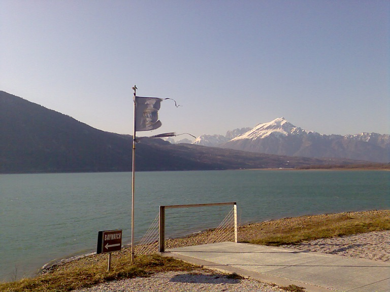 Lake of S. Croce seen from the beach in Poiatte.